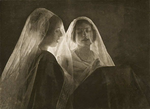 Woman in veils, Heliogravur